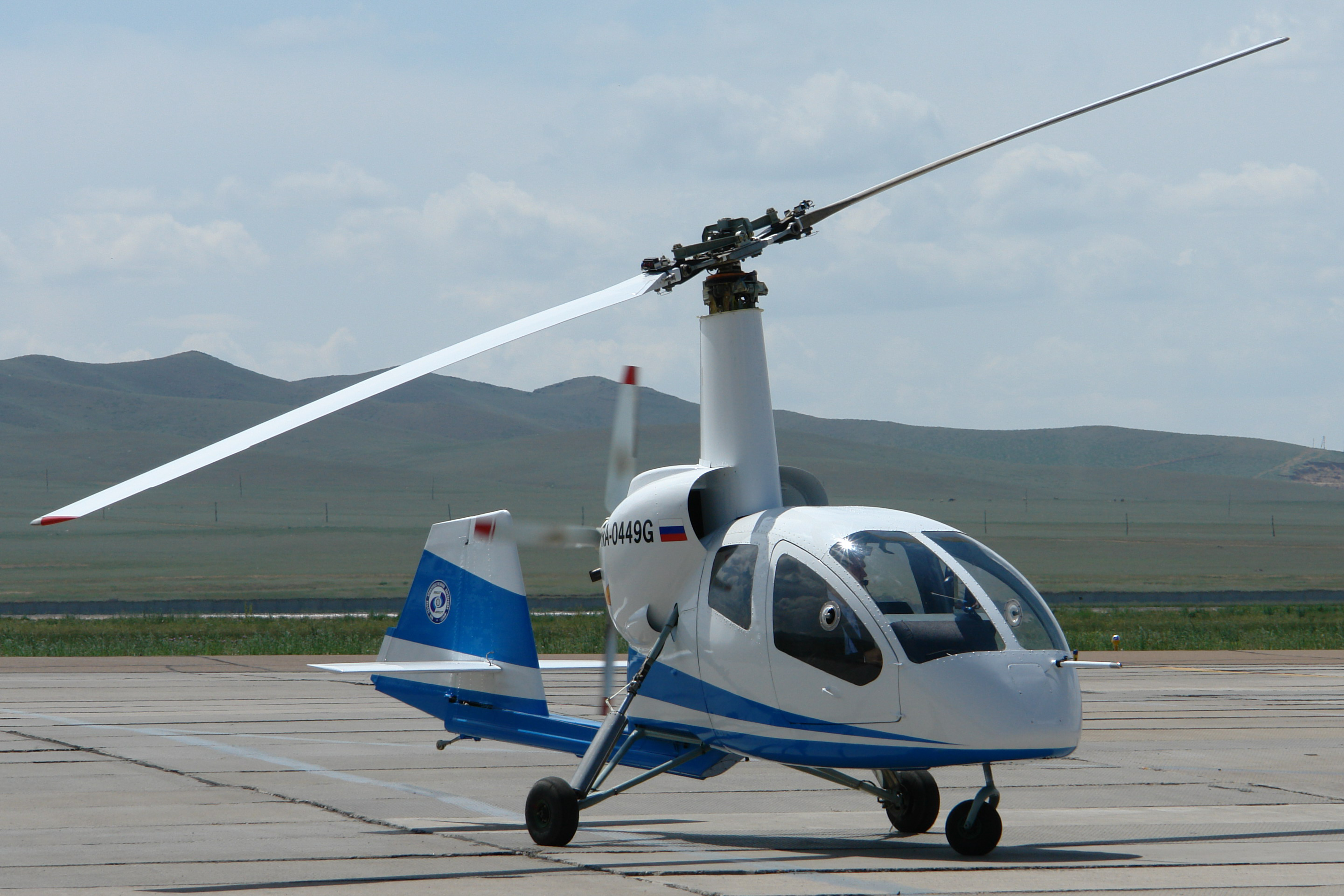 3 person gyroplane Irkut A002M